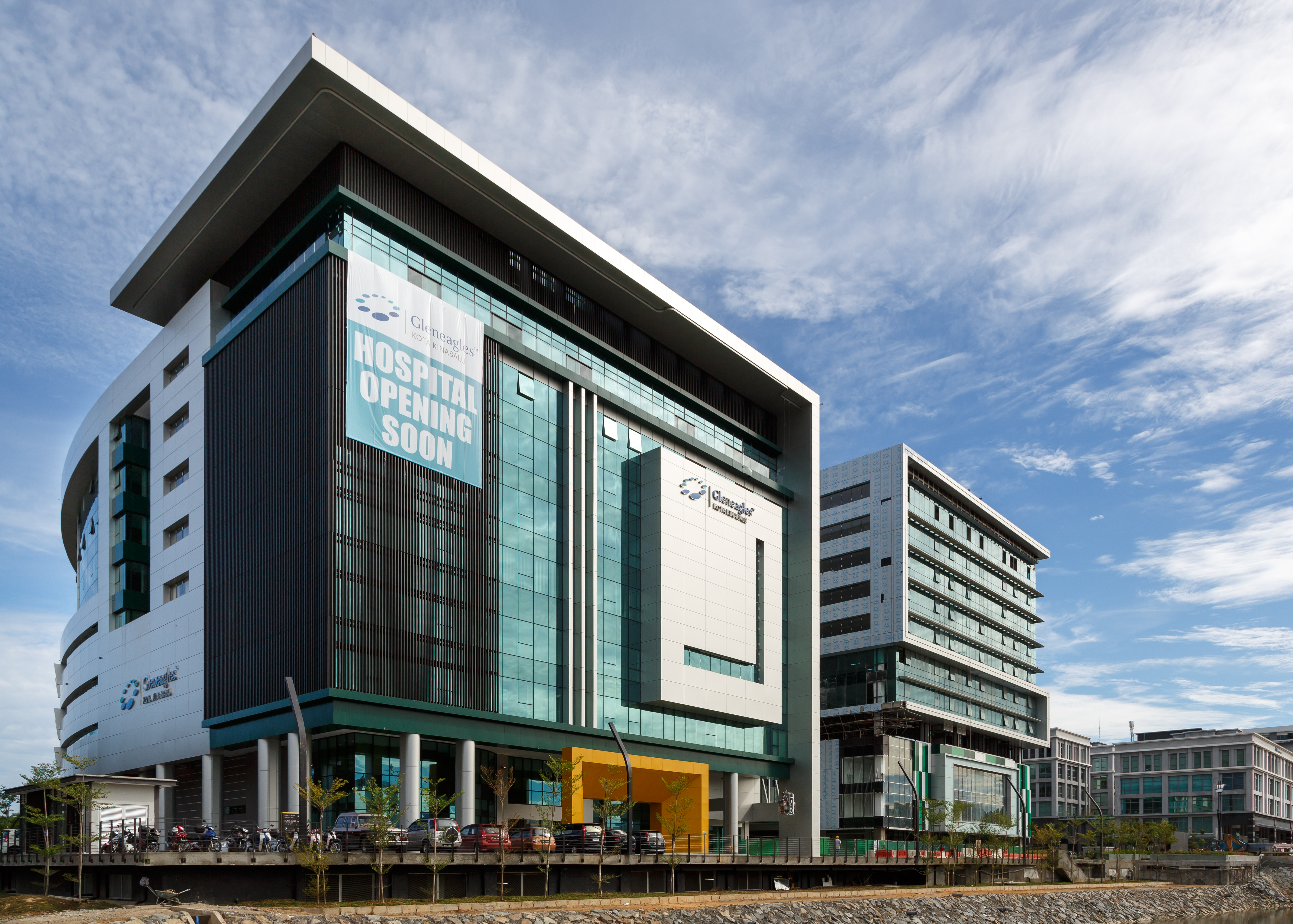 Kota Kinabalu, Sabah: The Gleneagles Hospital in 2015